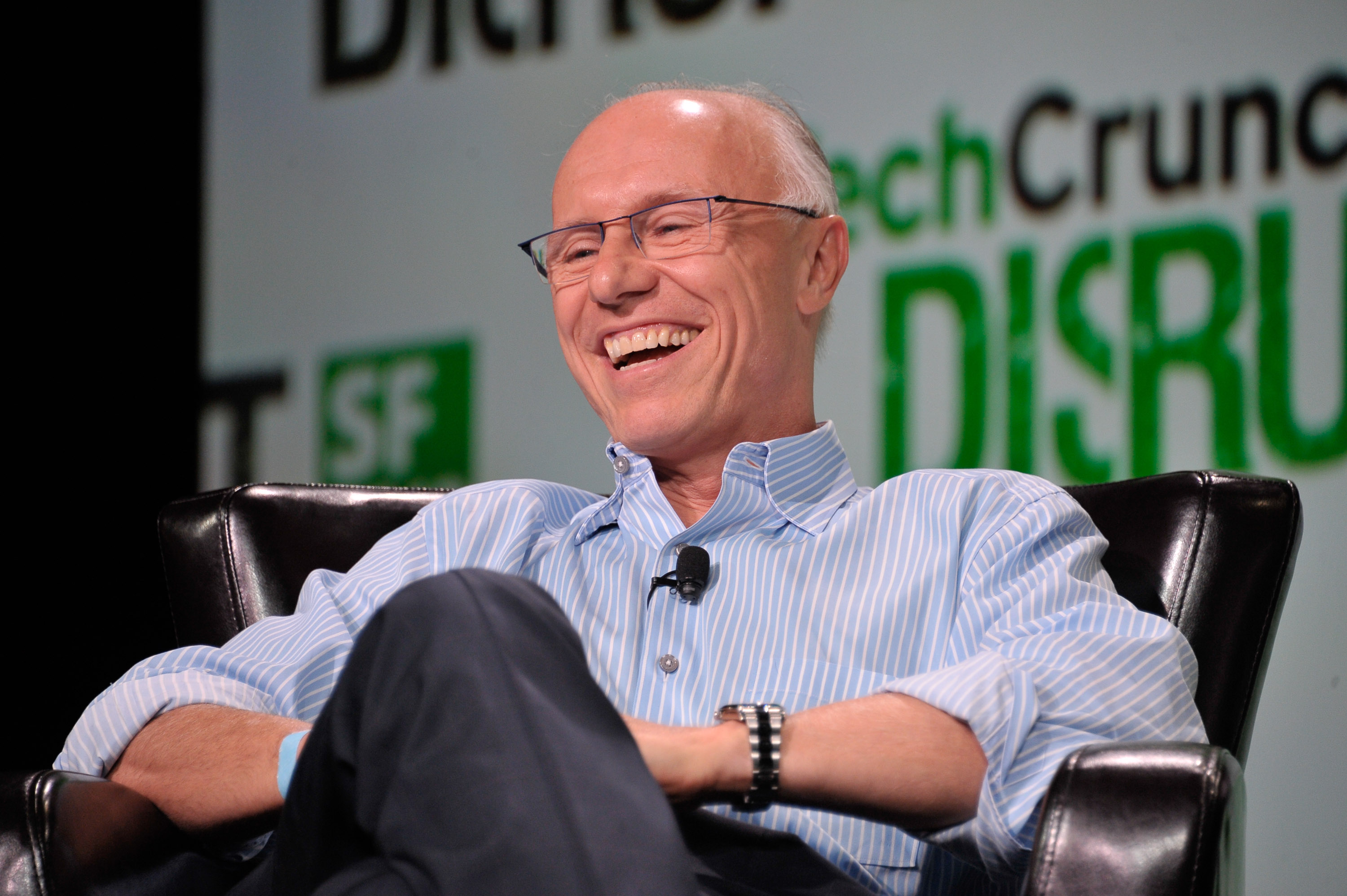 Douglas Leone seated at TechCrunch Disrupt SF 2013